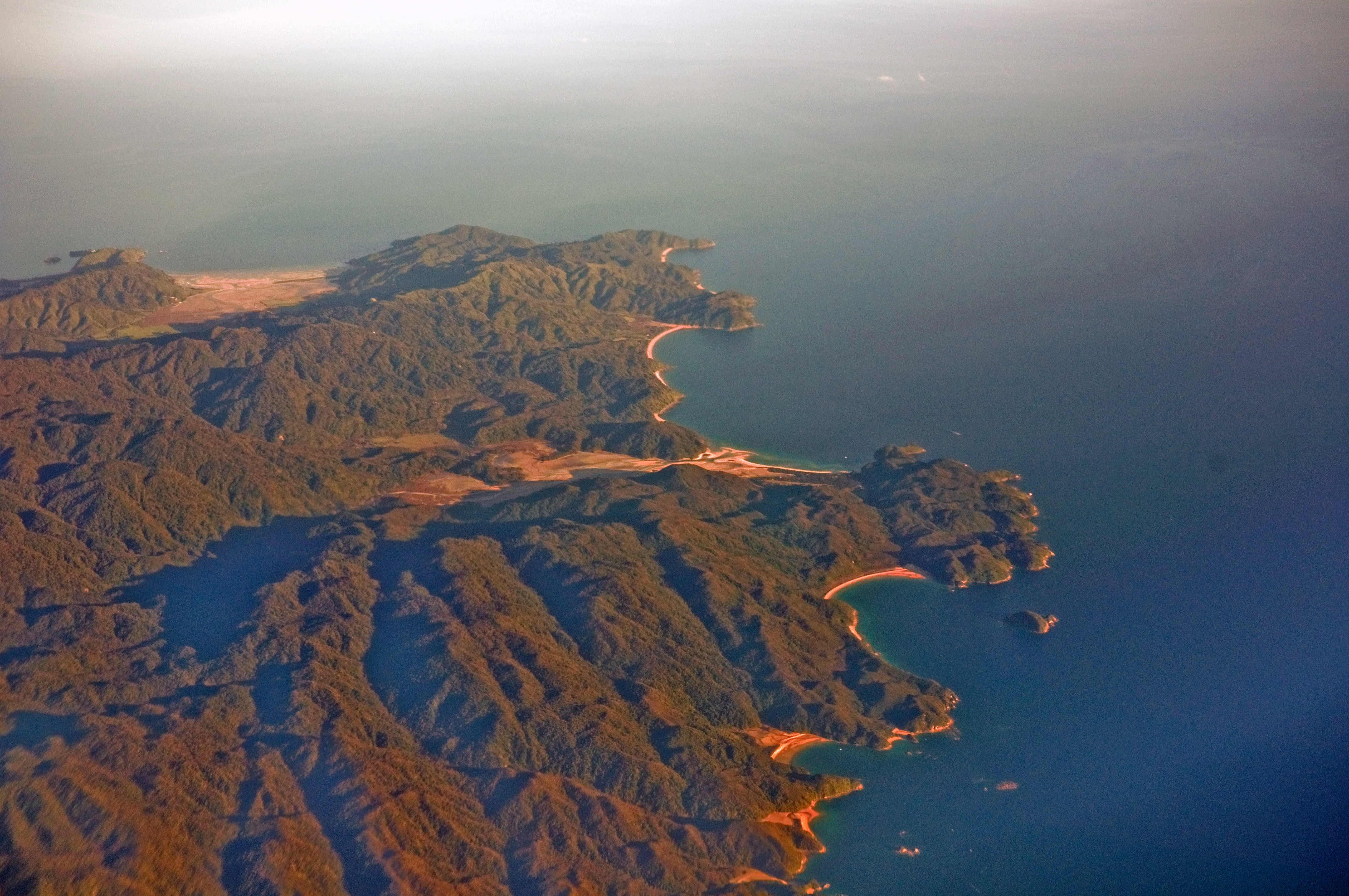 En route Wellington to Sydney in an Air NZ A320